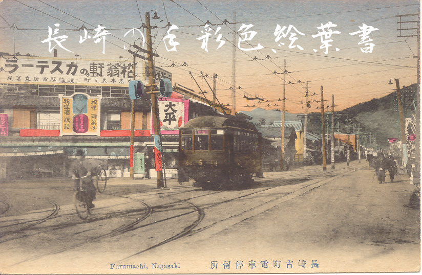 Japanese hand tinted postcard showing the tram stop in Furumachi in Nagasaki